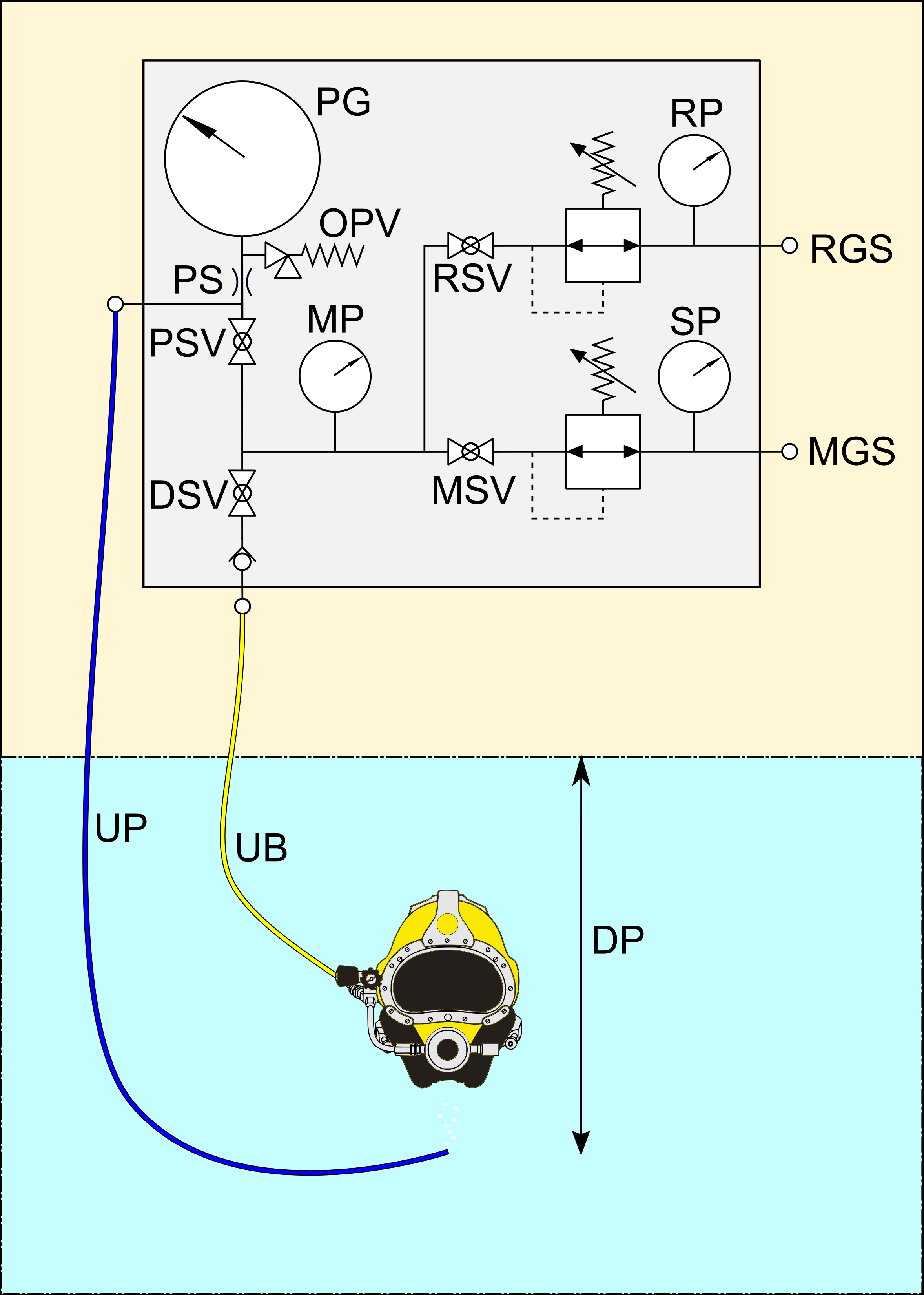 Gas panel for surface supplied diving: Schematic diagram for one diver showing main and reserve gas inlets, breathing gas supply to the diving helmet and pneumofathometer line for depth monitoring:PG: pneumofathometer gaugeOPV: overpressure valvePS: pneumo snubberPSV: pneumo supply valveDSV: diver supply valveMP: manifold pressureRSV: reserve supply valveRP: reserve pressureMSV: main supply valveSP: supply pressureRGS: reserve gas supplyMGS: main gas supplyUP: umbilical pneumo hoseUB: umbilical breathing gas hoseDP: depth measured by pneumofathometer